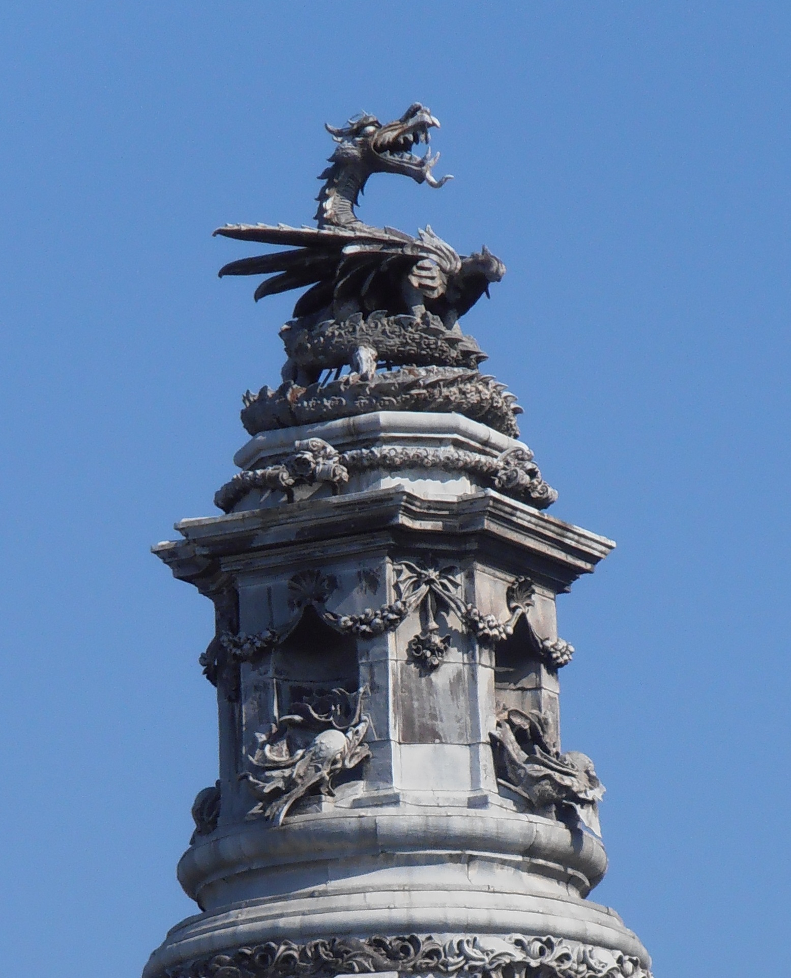 Welsh Dragon (1901–6) by H. C. Fehr, crowning the dome of Cardiff City Hall